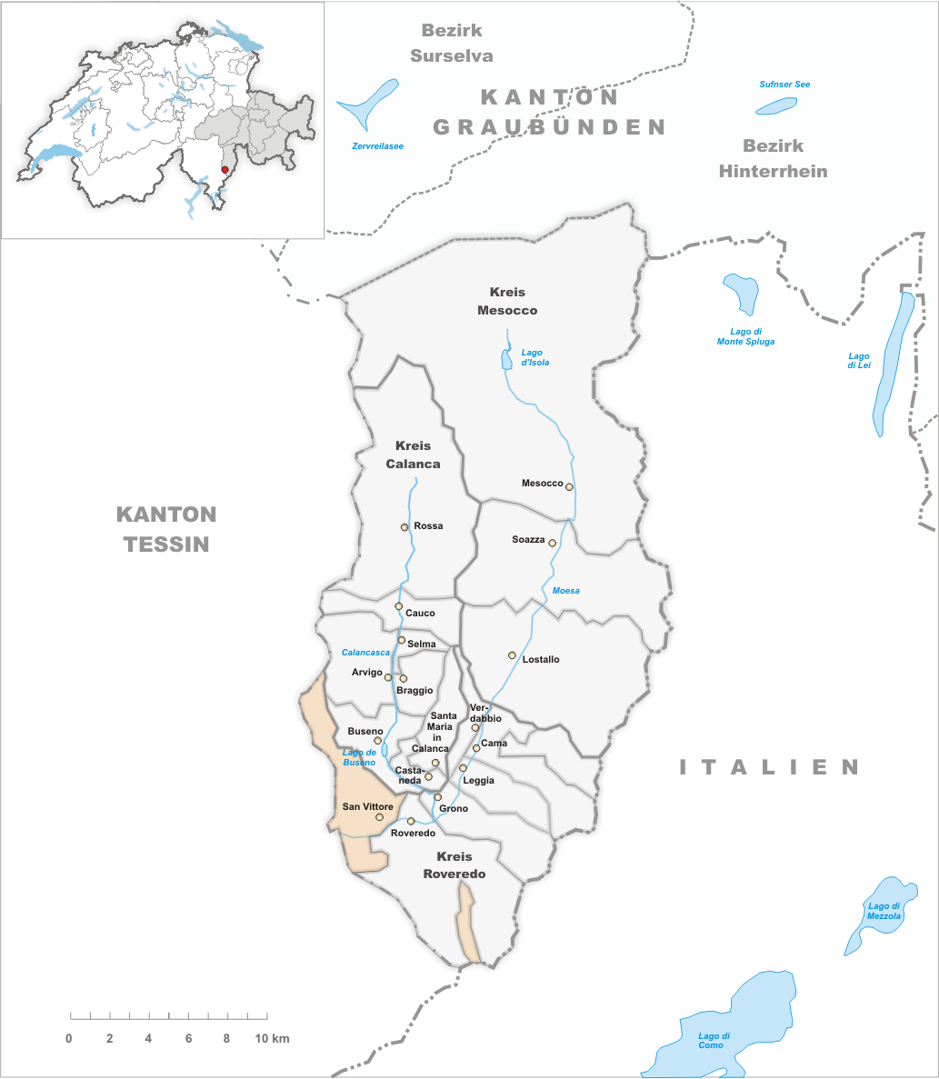 Municipality San Vittore